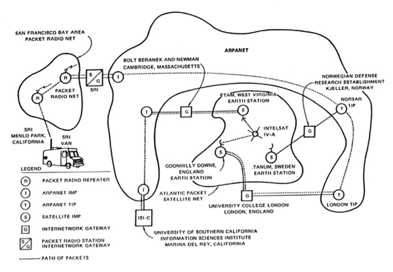 First Internet Demonstration, 1977. Early version of the Internet Protocol linking the ARPANET, Packet Radio Network (PRNET), and Atlantic Satellite Network (SATNET).